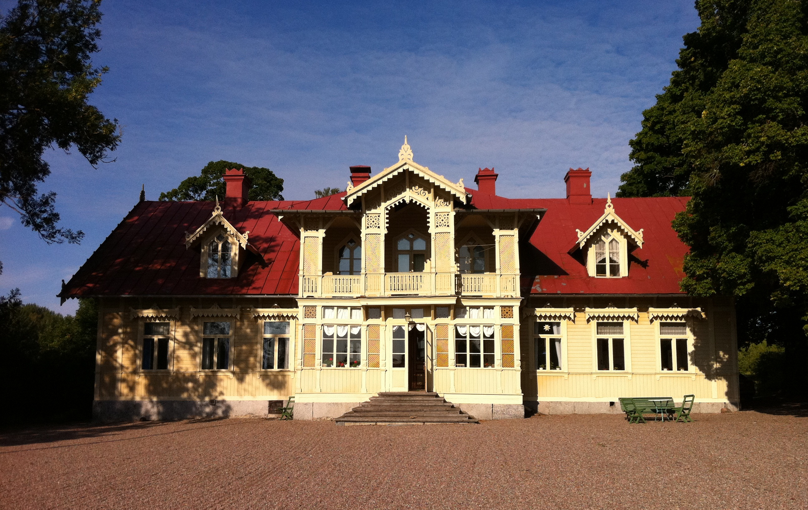 Sund mansion, Värmdö Municipality, Sweden